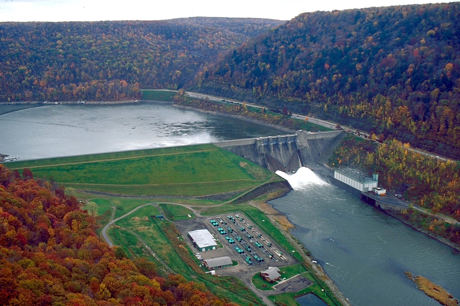 Kinzua Dam on the Allegheny River in Warren County near Warren, Pennsylvania, USA. The dam was constructed by the U.S. Army Corps of Engineers 1960–1965. The dam provides flood control on the Allegheny River and Ohio River, and hydroelectric power production. The dam impounds the Allegheny Reservoir, also known as Kinzua Lake.